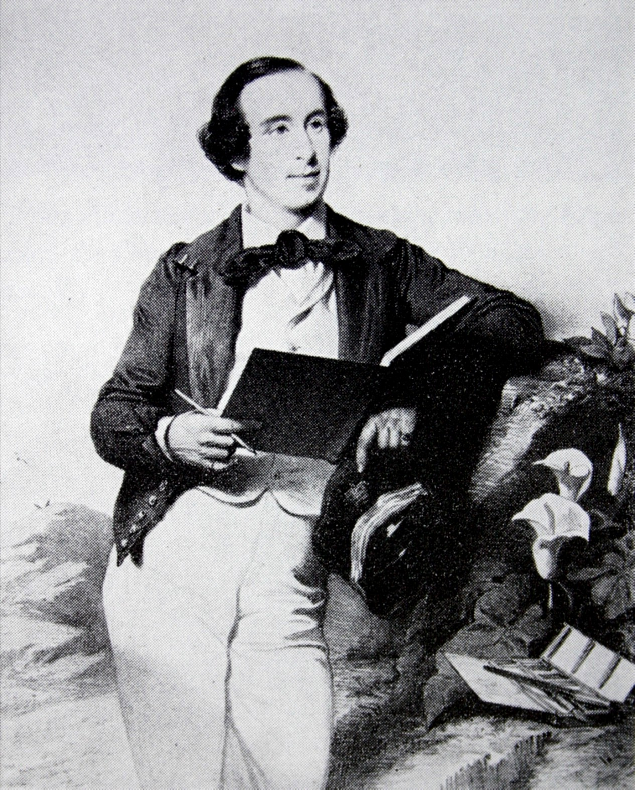 George French Angas (1822-1886), English naturalist, artist, traveller